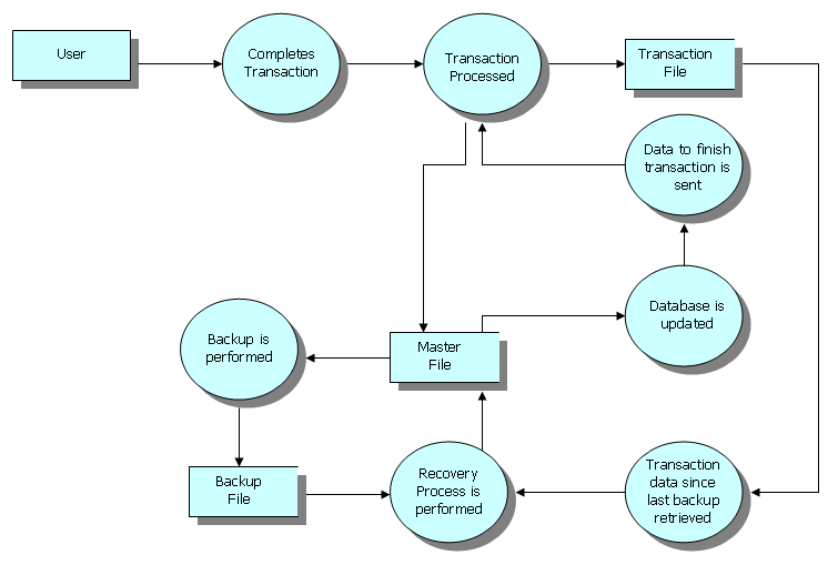 by Sukari